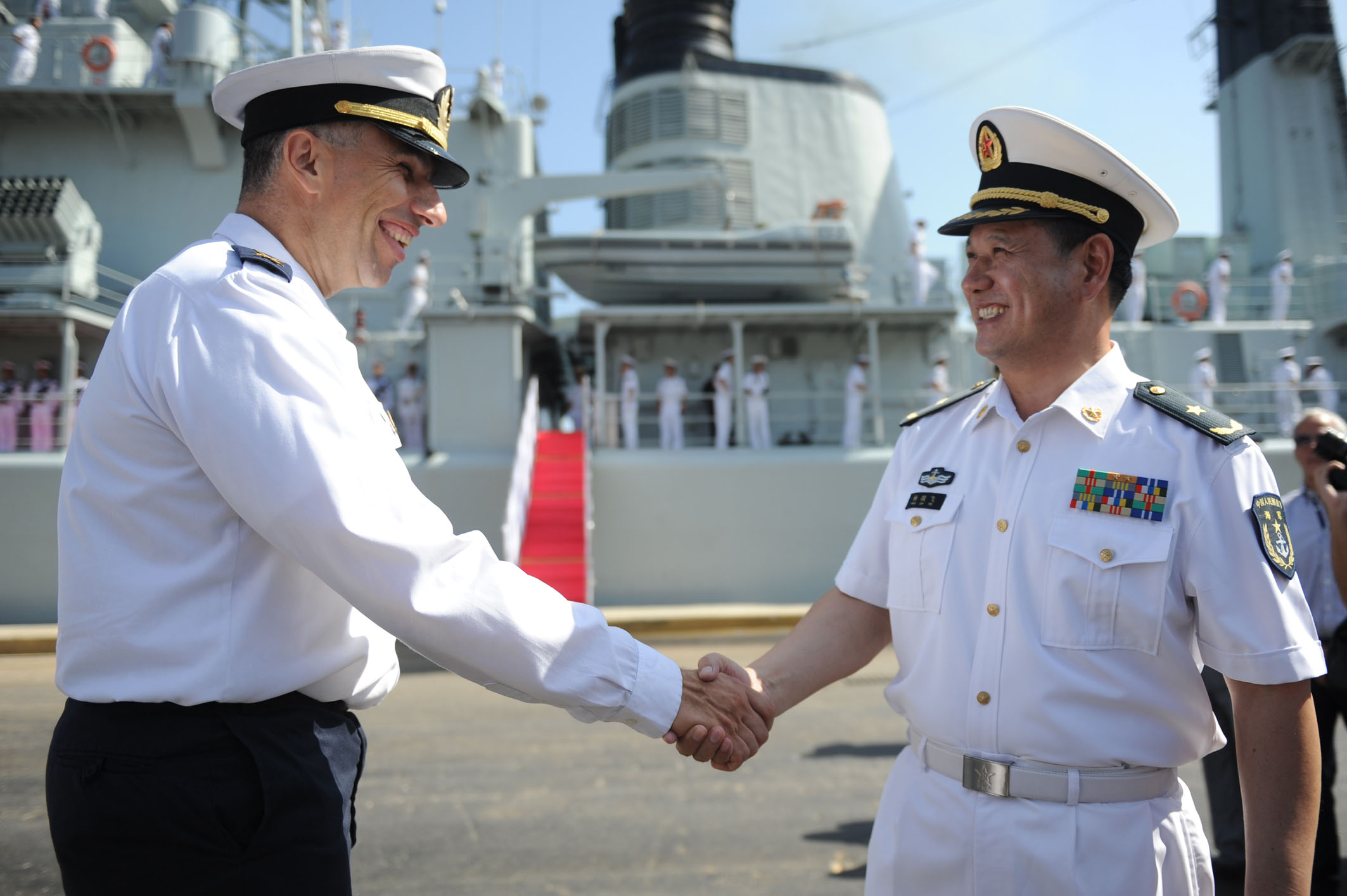 The Israel Navy congratulates the Chinese Navy on docking at the Haifa port. On August 13, 2012, the Chinese vessels arrived at Israel in order to celebrate 20 years of cooperation between the Israel Navy and the Chinese Navy. RADM Yang Jun-Fei was welcomed by the Haifa base commander, Brig. Gen. Eli Sharvit, upon his docking.